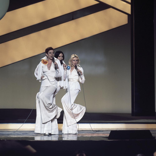 Chocolat, Menta, Mastik at a rehearsal for the Eurovision Song Contest 1976.